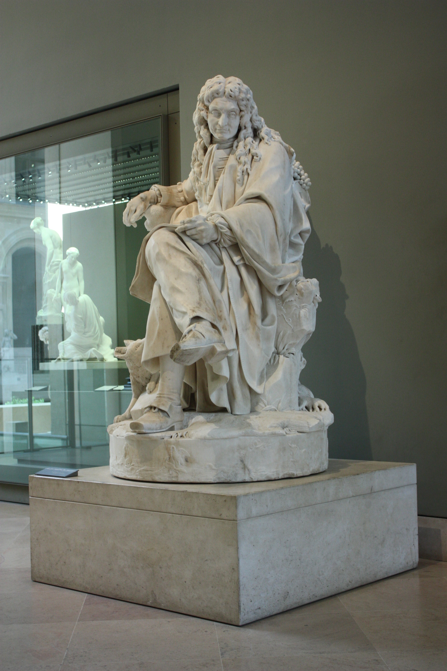 The writer is representing holding a folio with the first verses of The Fox and the Grapes. Marble, exhibited at the Salon of 1785.